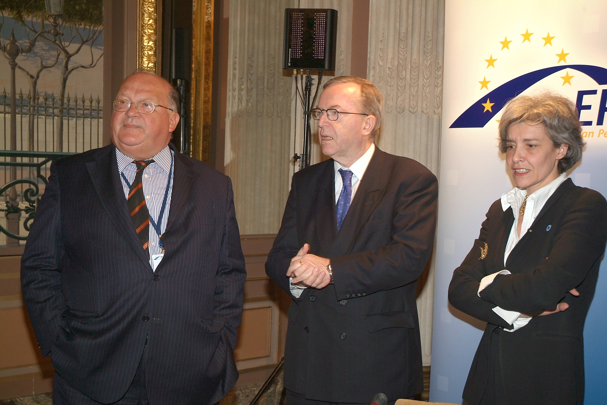 EPP debates on EU Constitution - Paris 8-9 March 2005